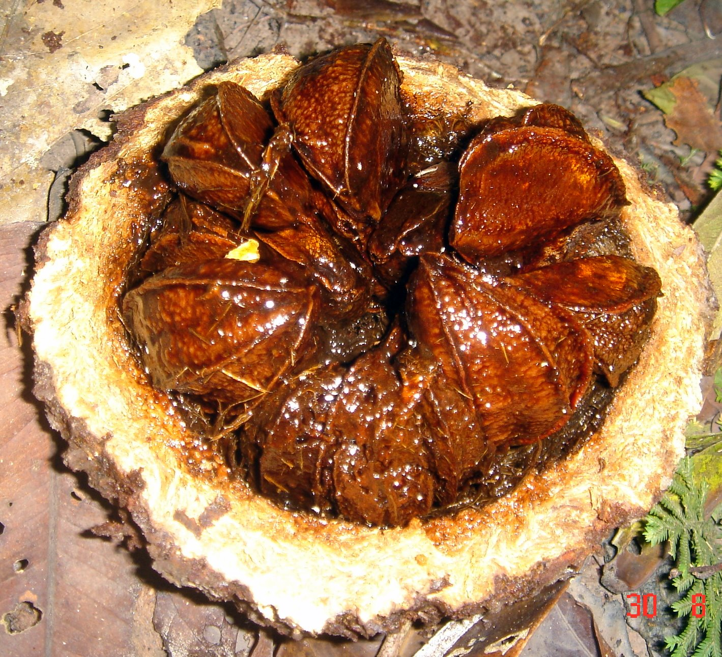 A fresh cut Brazil nut fruit near Jauaperi River, Lower Rio Branco-Rio Jauaperi Extractive Reserve, Brazil